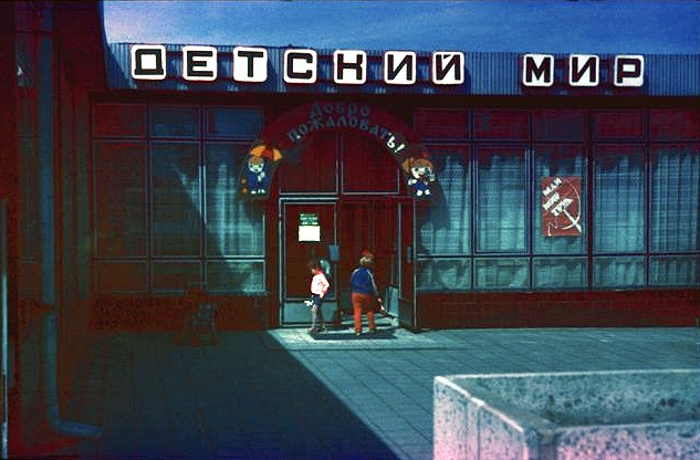 Soviet shop in Milovice (Current address Armádní 529, Milovice, shop Teta drogerie)